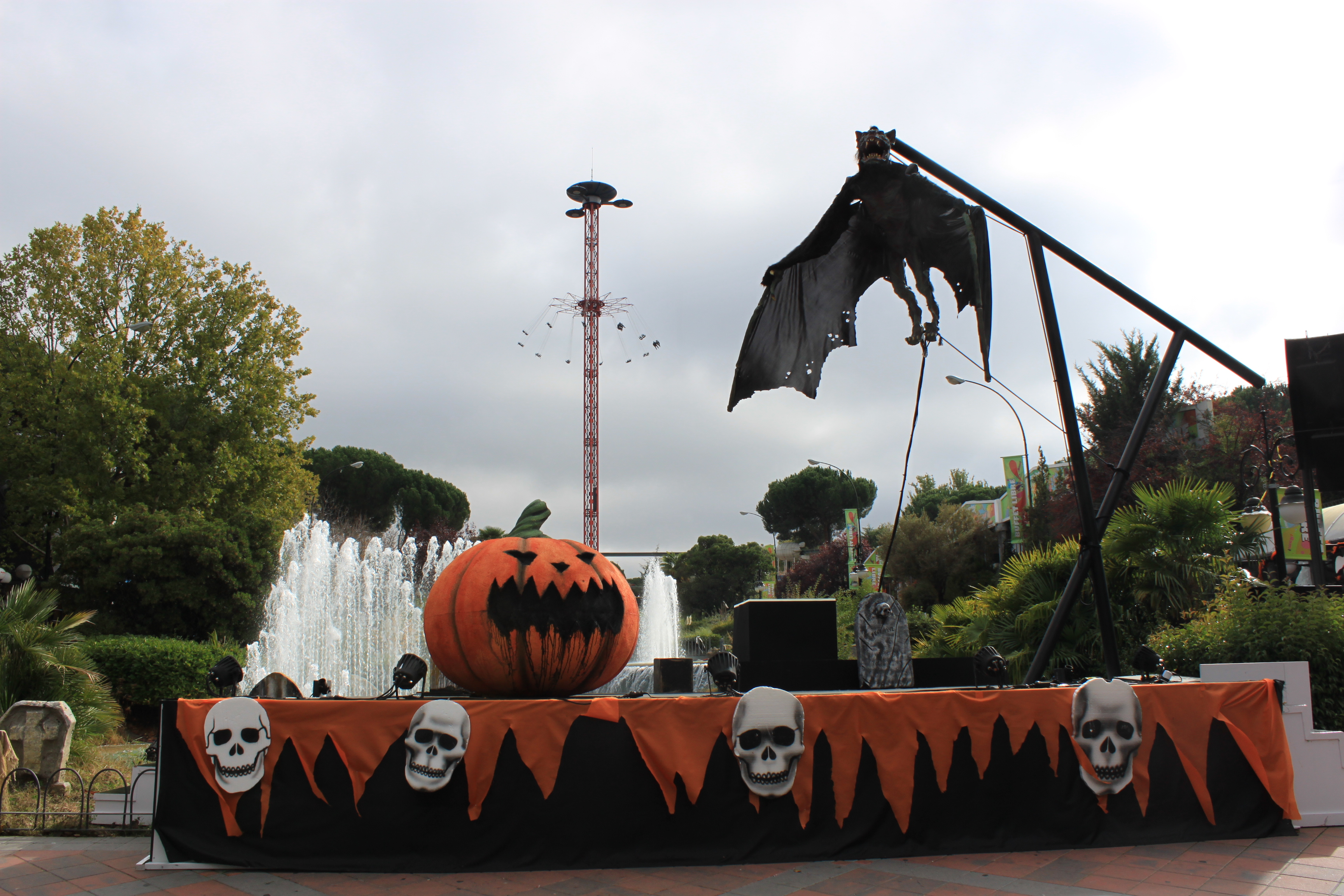 Decoración de Halloween en Parque de Atracciones de Madrid